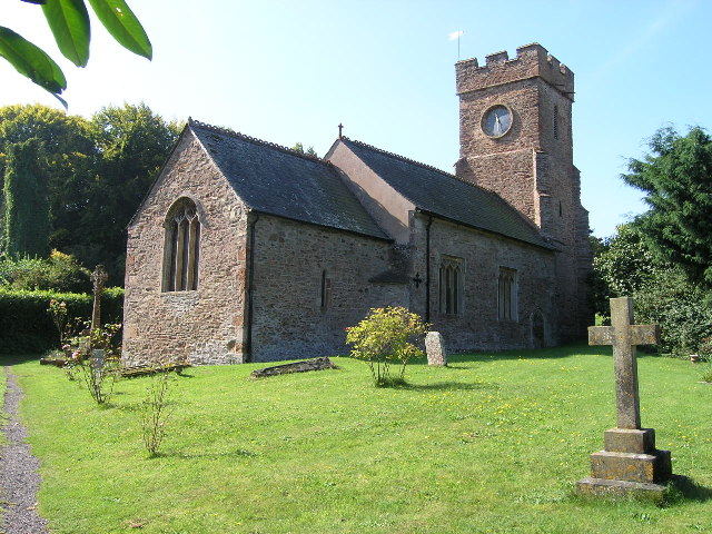 All Saints' parish church, Monksilver, Somerset, seen from the northeast